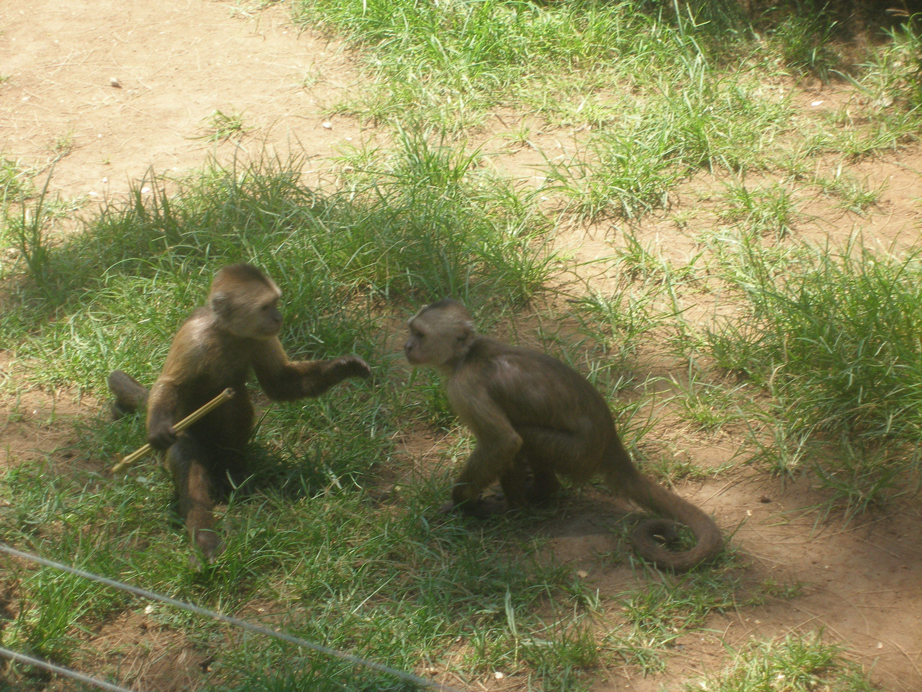 Weeper Capuchin. Taken in the Zoological Center of Tel Aviv-Ramat Gan, Israel